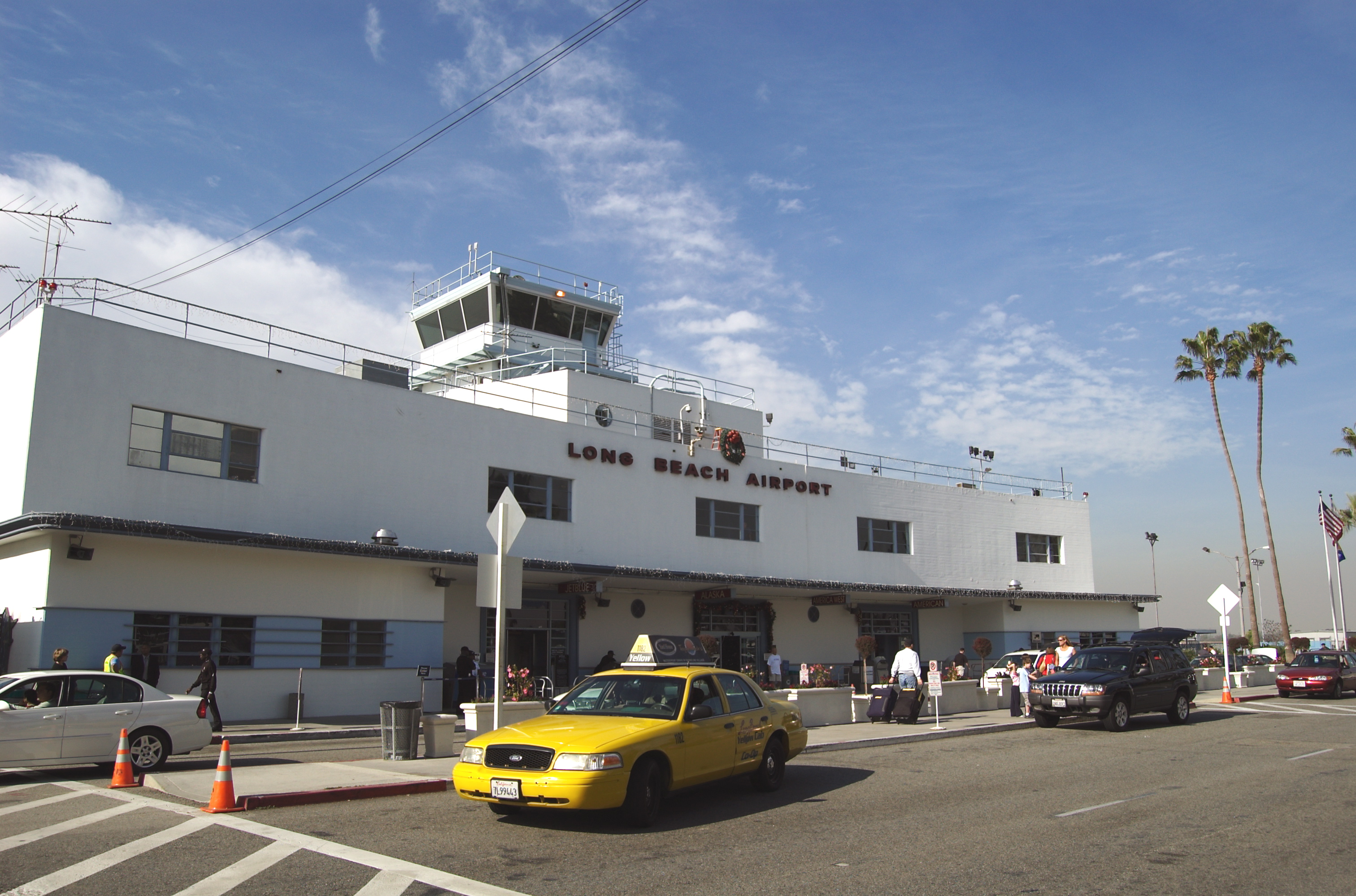 Larger version with slight color adjustments.